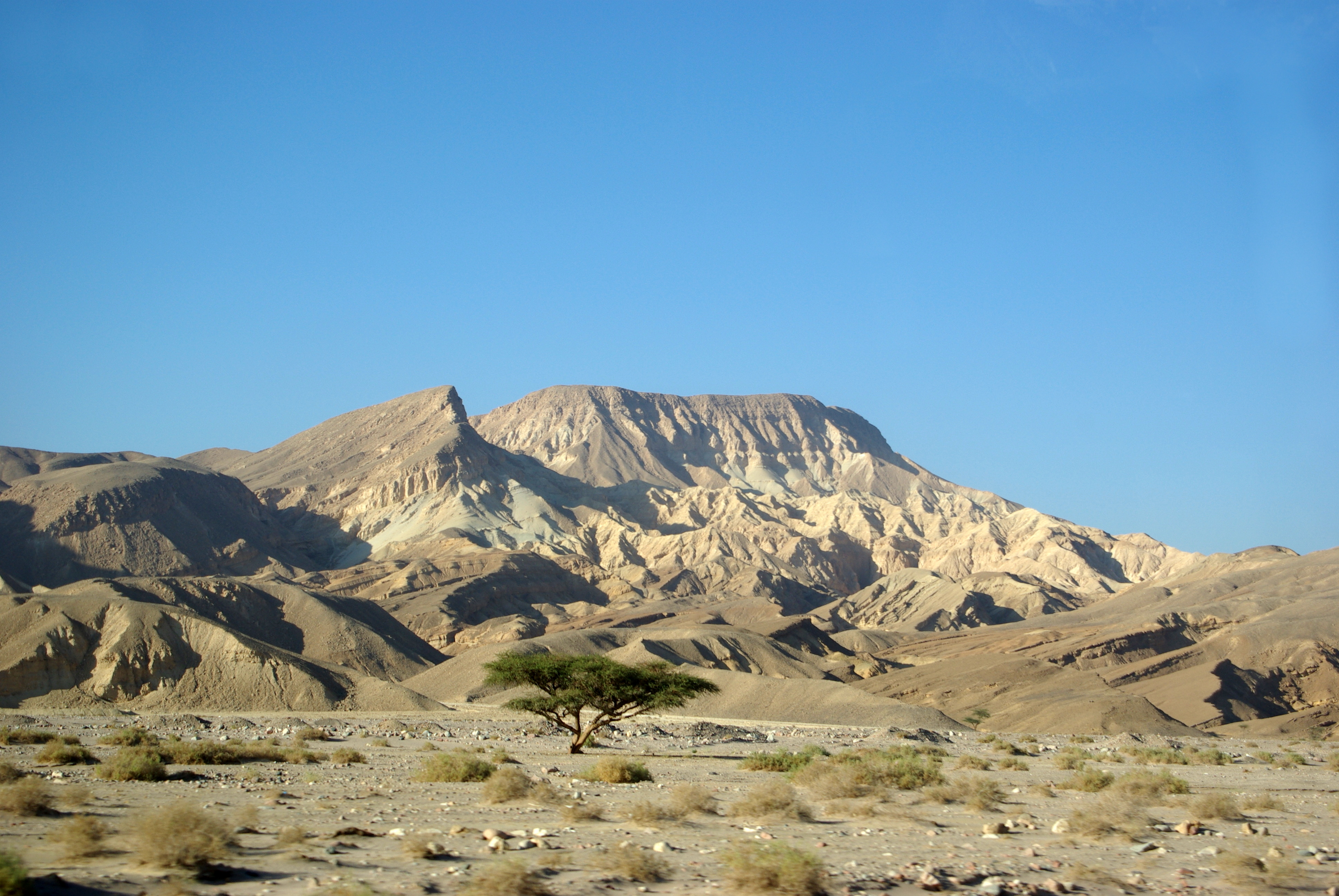 Sinai peninsula